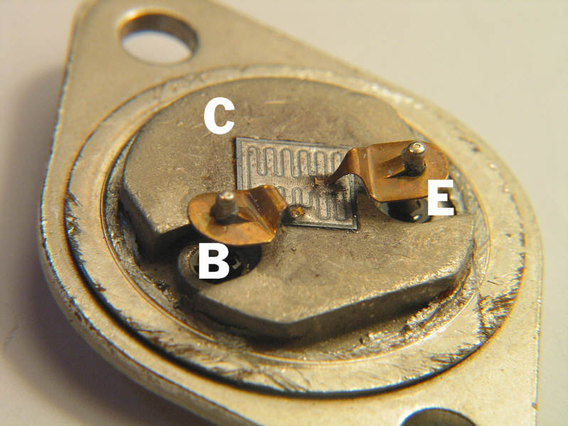 Power Transistor 2N3055 opened to see internals. Manufacturer unknown, unstamped "out-of-spec" (cheap) quality. Technolgy of the 1980's. Collector, Base and Emitter are marked.